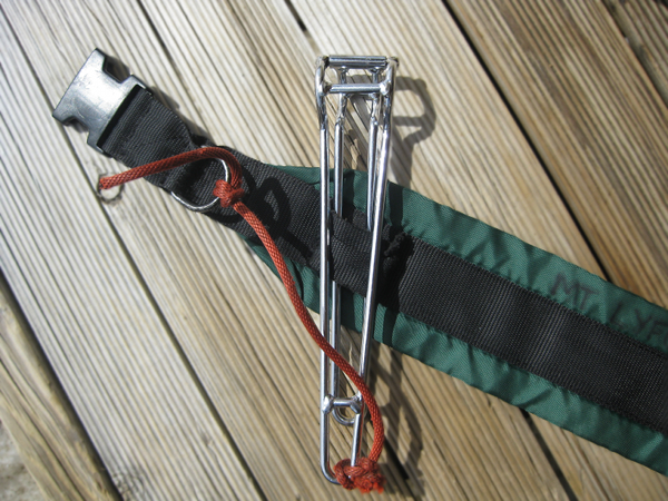 Nutcracker and belt, as used by skiiers on a rope tow